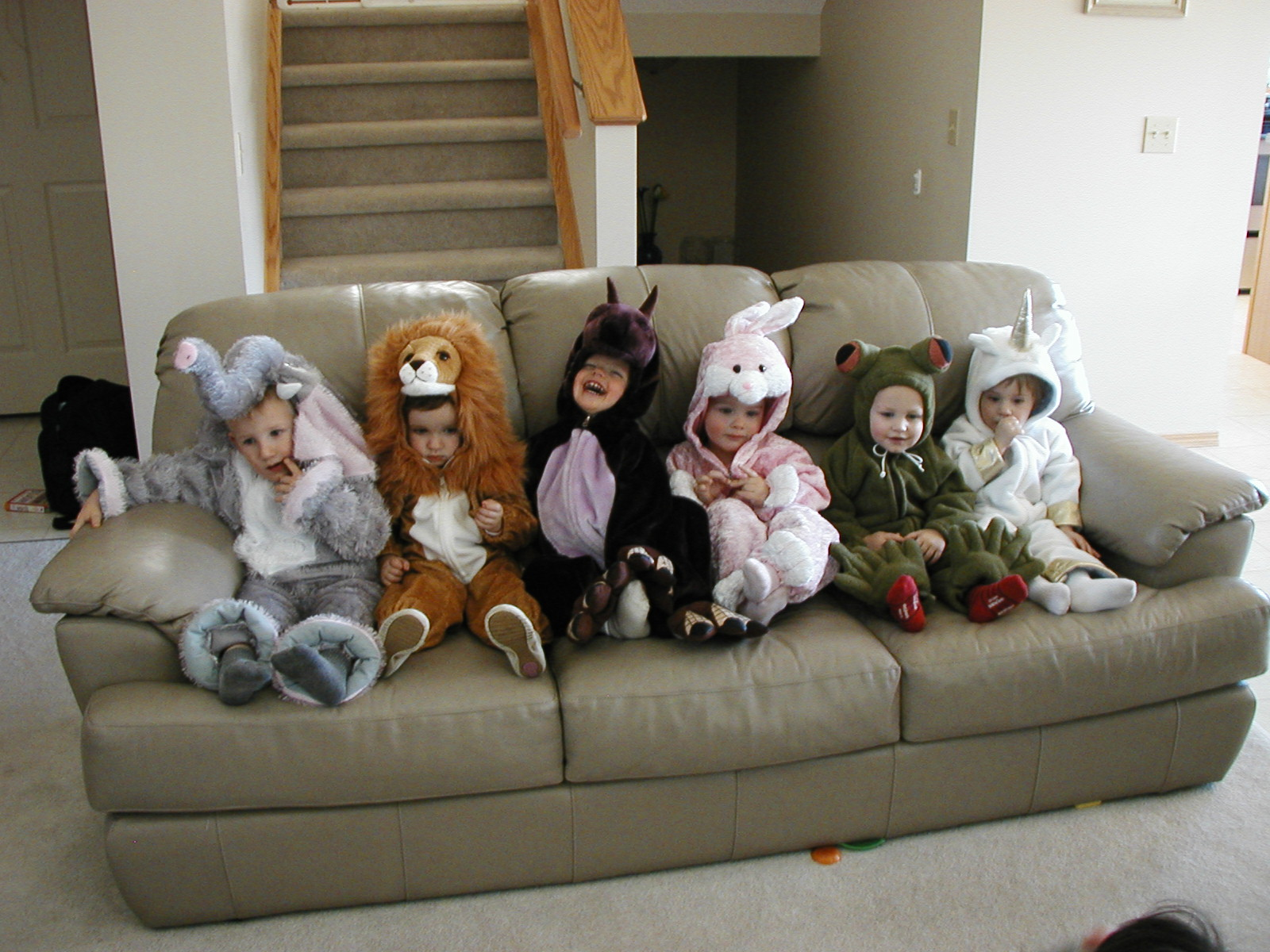 Children in Halloween costumes